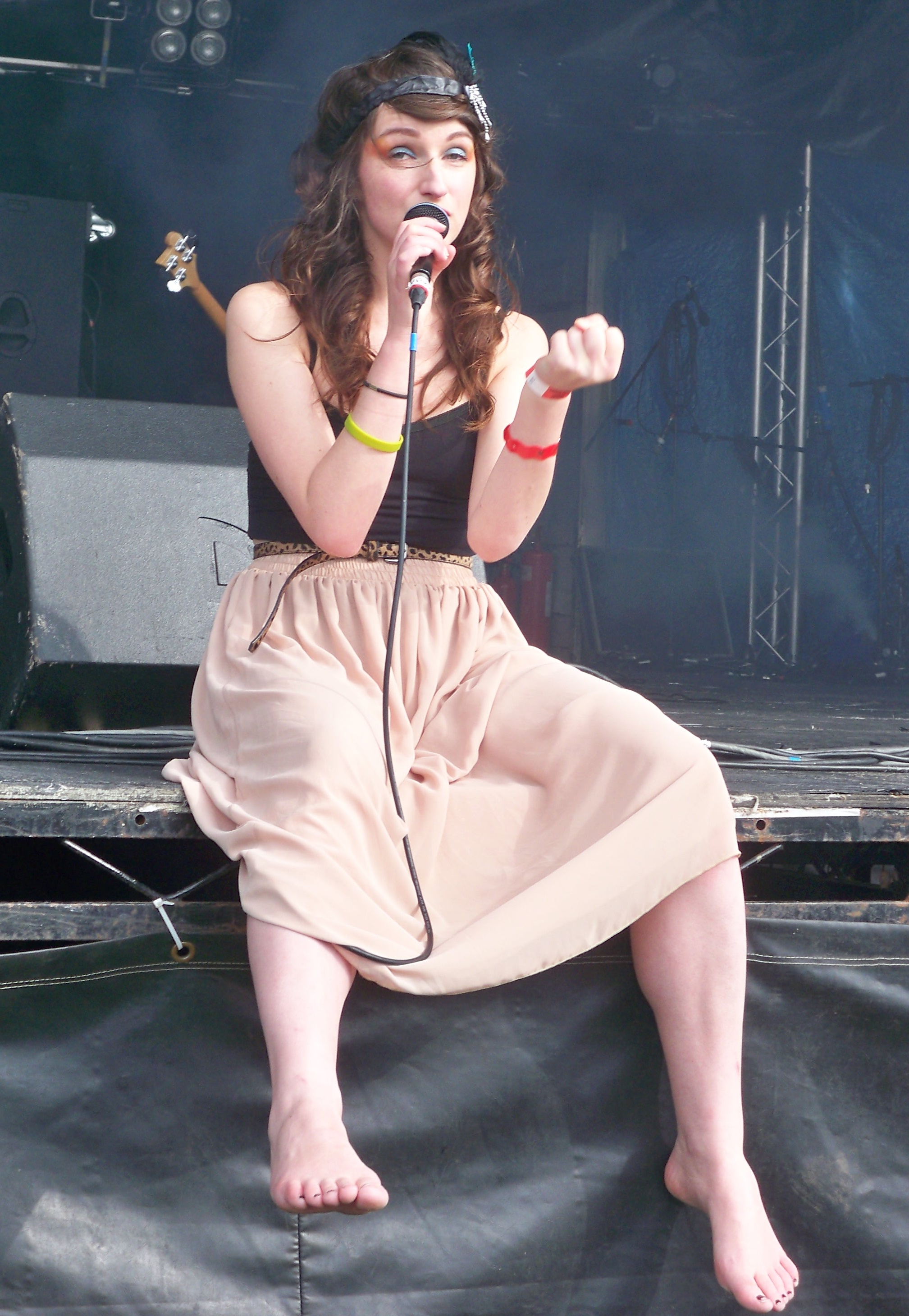 Joana Glaza from Joana and the Wolf, sitting on the edge of the stage at Guilfest.